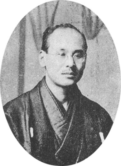 Mr. Sofū Inage.